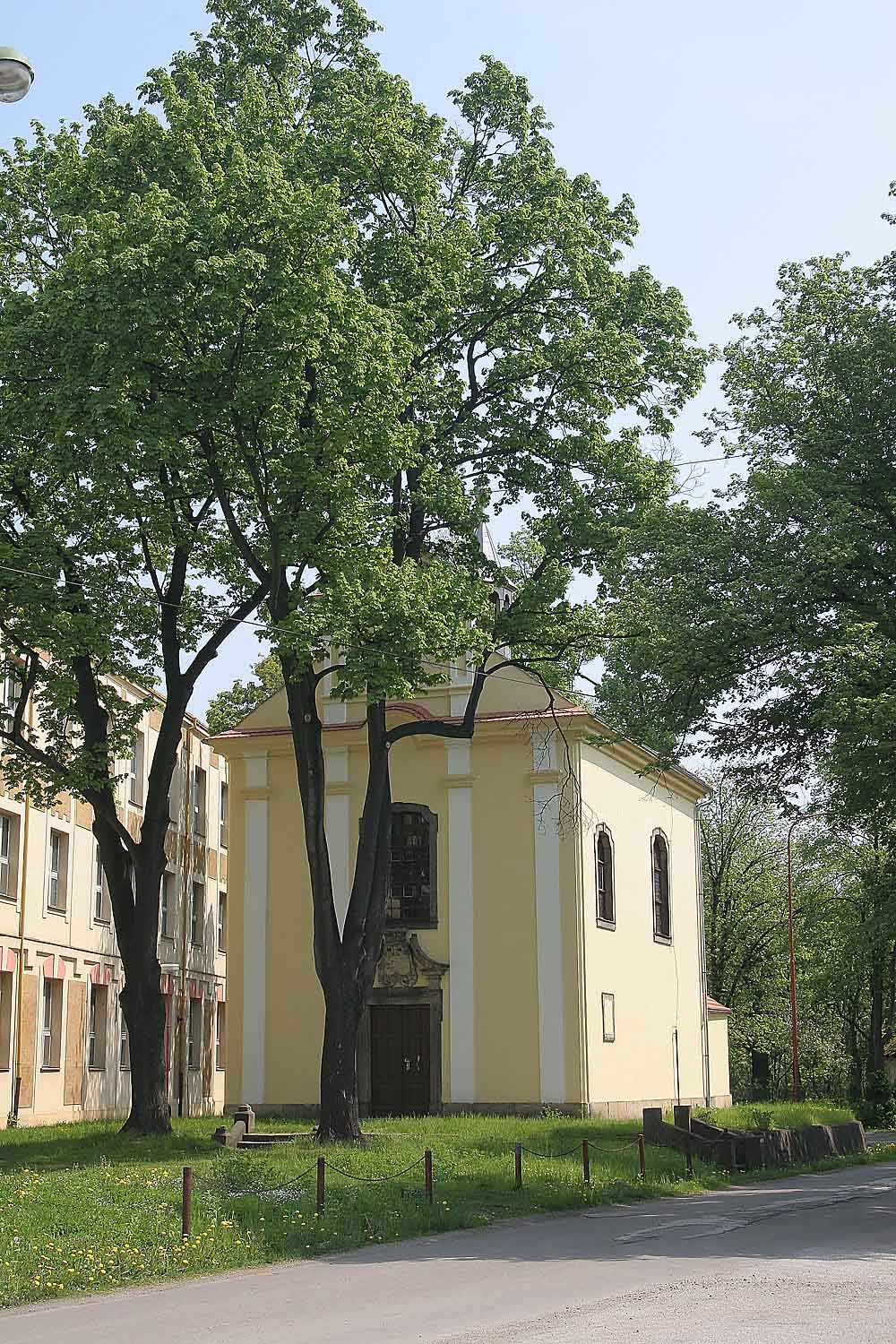 Church of Saint Anna in village Skřivany, district Hradec Králové, Czech Republic Autor: Prazak Date: 20. 5. 2006